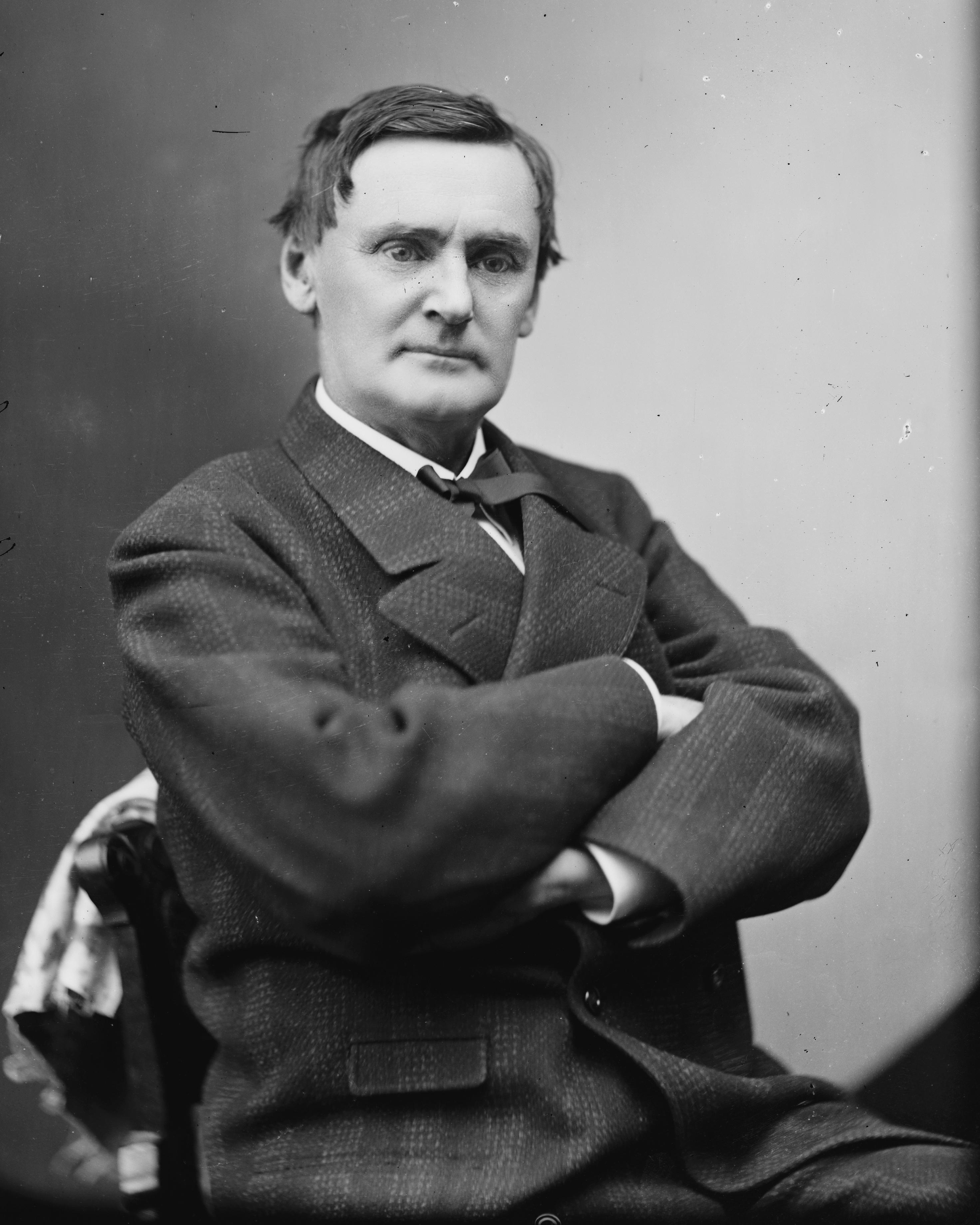 Joseph Jefferson. Library of Congress description: "Jefferson, Joe (Actor)".